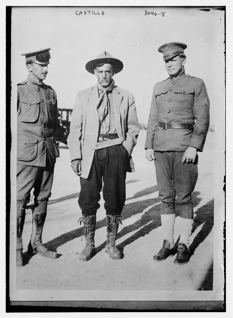 Title: Castillo Creator(s): Bain News Service, publisher Date Created/Published: [between ca. 1914 and ca. 1915] Medium: 1 negative : glass ; 5 x 7 in. or smaller. Summary: Photograph shows Mexican revolutionary leader General Maximo Castillo (1864-1919), who was imprisoned in Fort Bliss, Texas from 1914 to 1916 during the Mexican Revolution. He was accused of blowing up a train tunnel in Mexico which killed many. He was later sent to Cuba. (Source: Flickr Commons project, 2011) Reproduction Number: LC-DIG-ggbain-15959 (digital file from original negative) Rights Advisory: No known restrictions on publication. For more information, see George Grantham Bain Collection - Rights and Restrictions Information Call Number: LC-B2- 3046-15 [P&P] Repository: Library of Congress Prints and Photographs Division Washington, D.C. 20540 USA Notes: Title from data provided by the Bain News Service on the negative. Forms part of: George Grantham Bain Collection (Library of Congress). General information about the George Grantham Bain Collection is available at Format: Glass negatives.